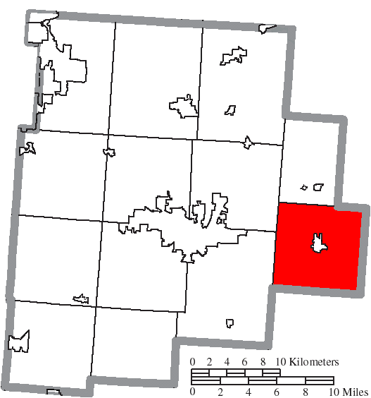 Map of the municipal and township boundaries of Fairfield County, Ohio, United States, as of the 2000 census, with the location of Rush Creek Township highlighted. Township borders are shown only in unincorporated areas in order to differentiate incorporated and unincorporated areas more clearly.